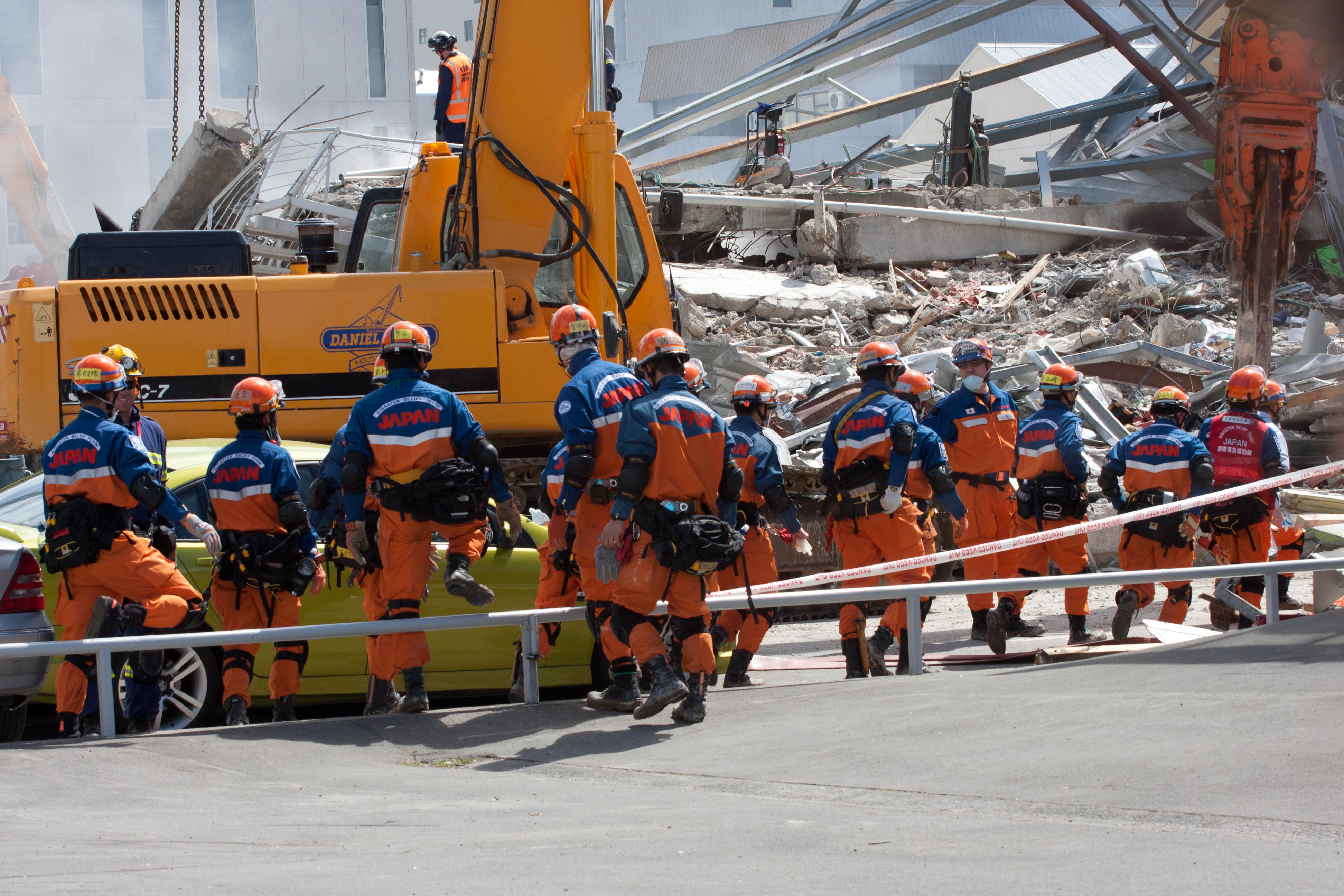 Japanese urban search and rescue team in Christchurch, 24 February 2011.